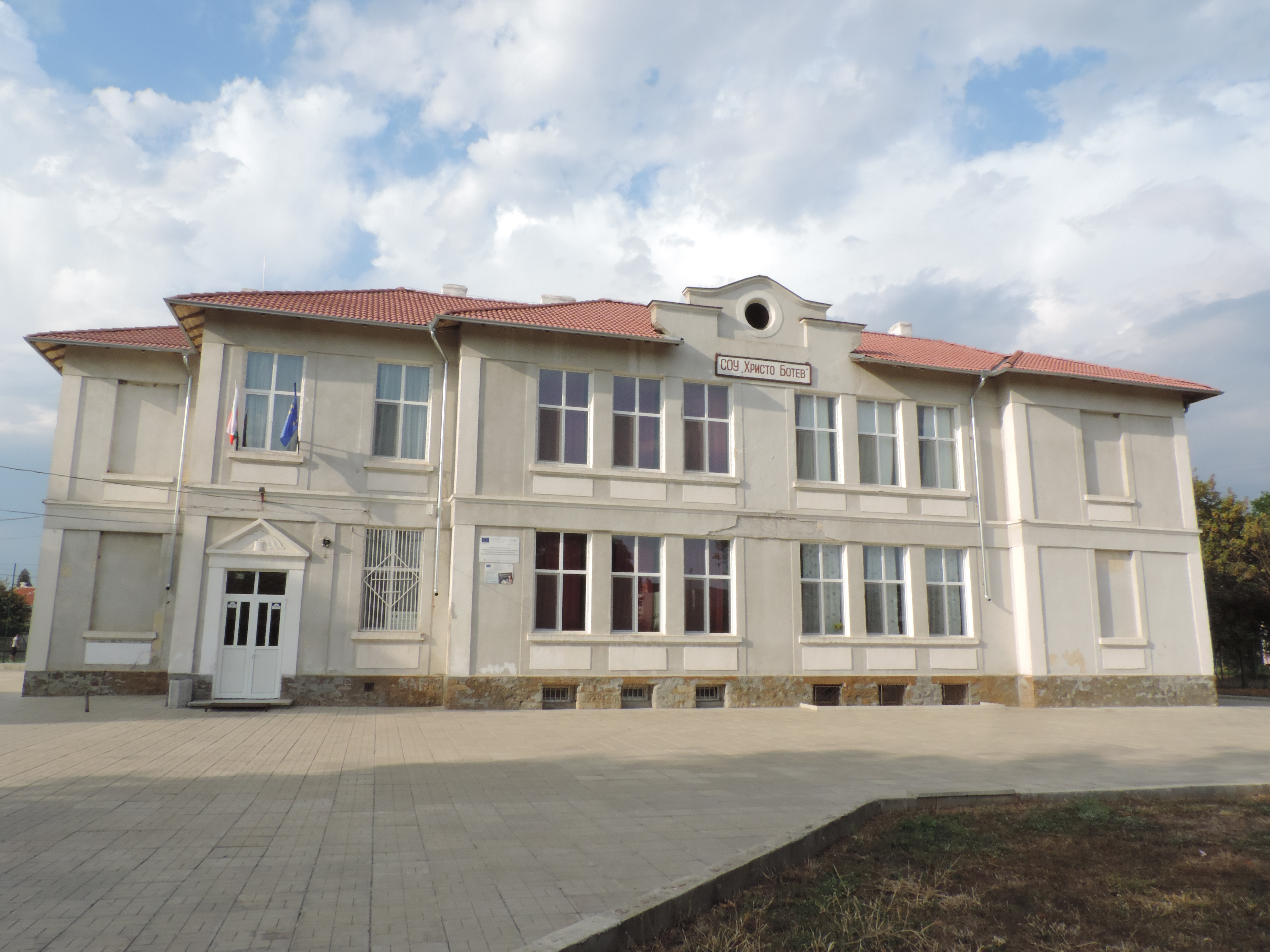 Secondary school "Hristo Botev" in Kameno, Burgas Province, Bulgaria